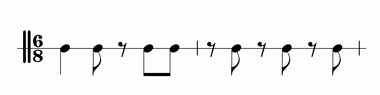 The so-called „Afro Clave“ or „Afro Bell“ rhythmic pattern generally used in African and Latin music to outline the shape of the 6/8-meter. File by the uploader using Music Publisher 5.